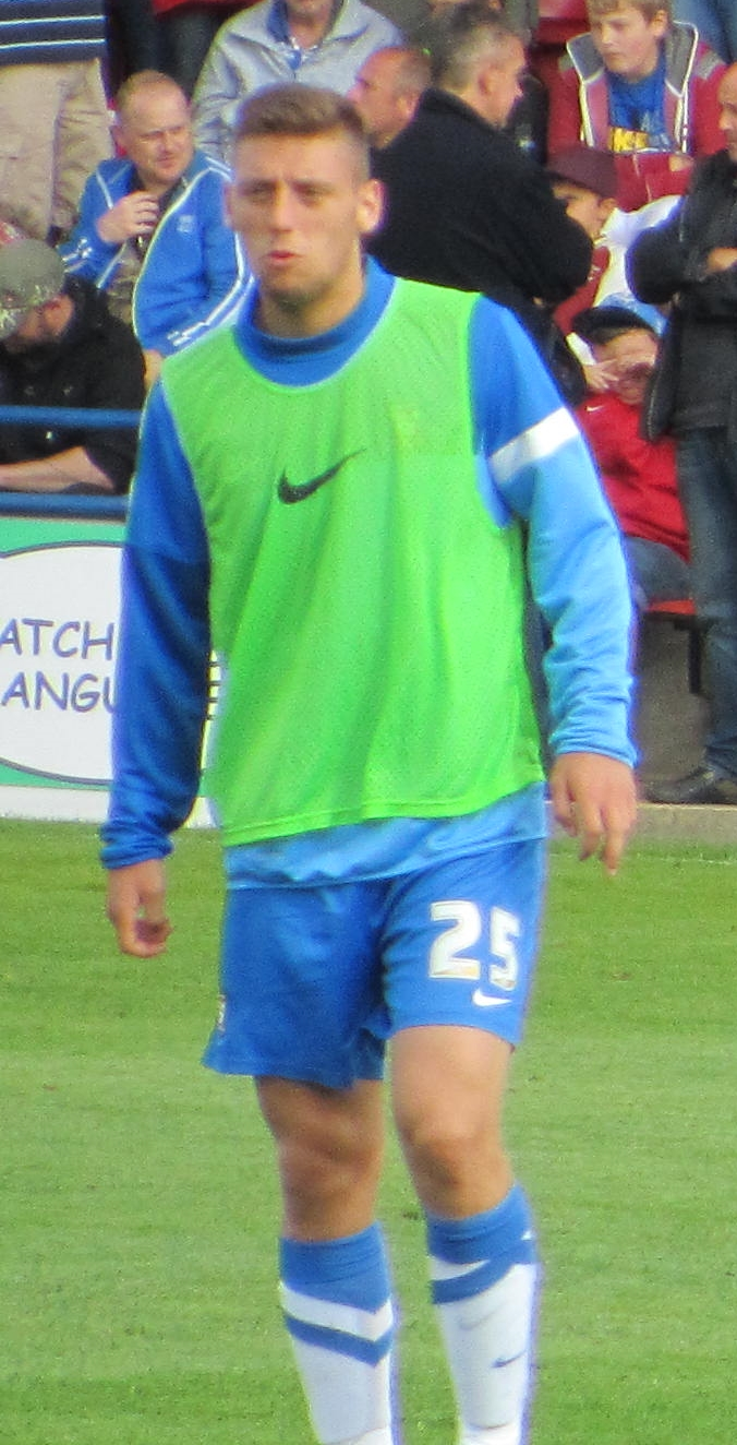 Chris Dickinson training with York City during half-time against AFC Wimbledon at Bootham Crescent, York on 7 September 2013